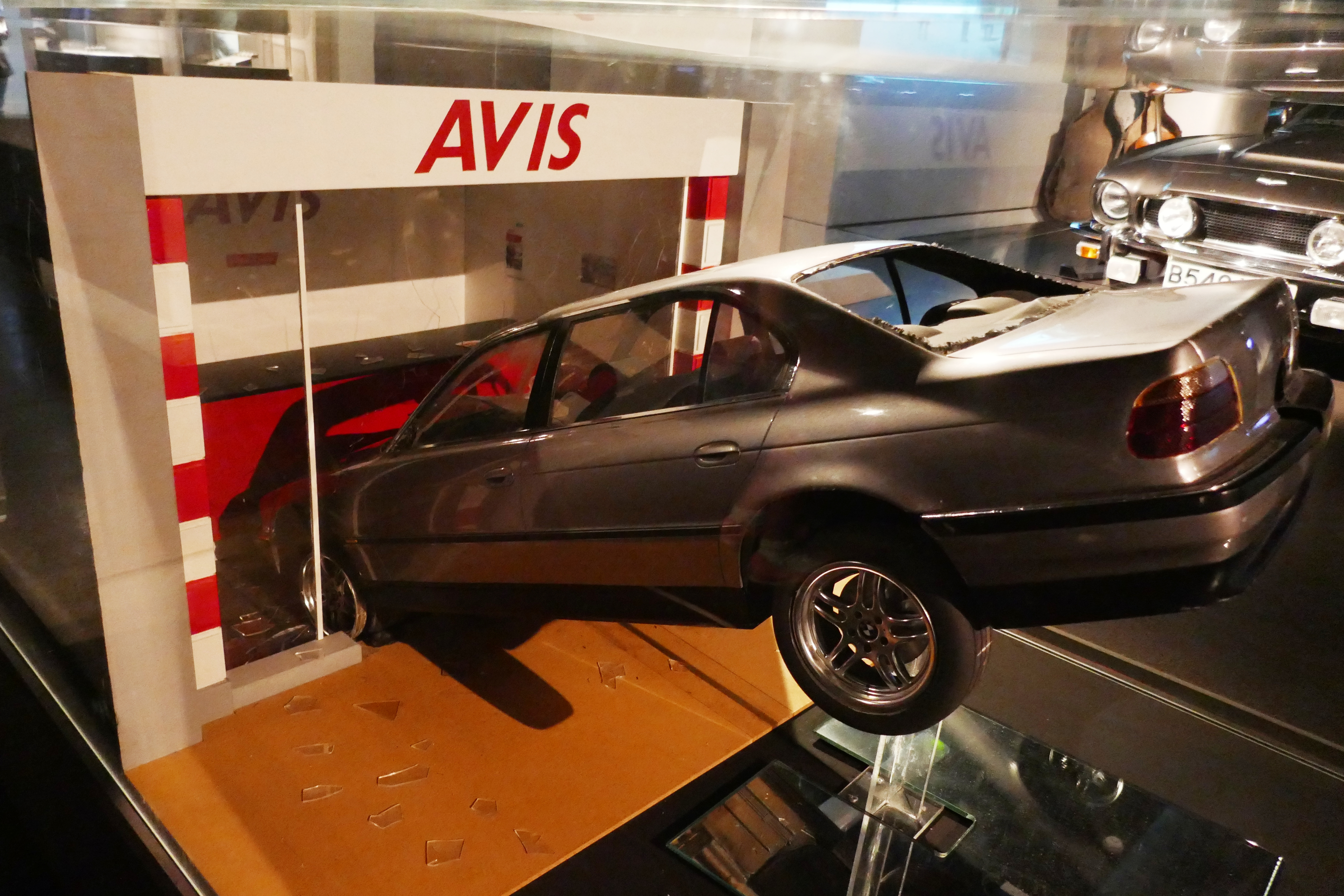 BMW 750iL Miniature from the movie "Tomorrow Never Dies" Crashed in Avis Office. Builded by the art department to complete the final set. National Film Museum, London - Bond in Motion Exhibition (2017)